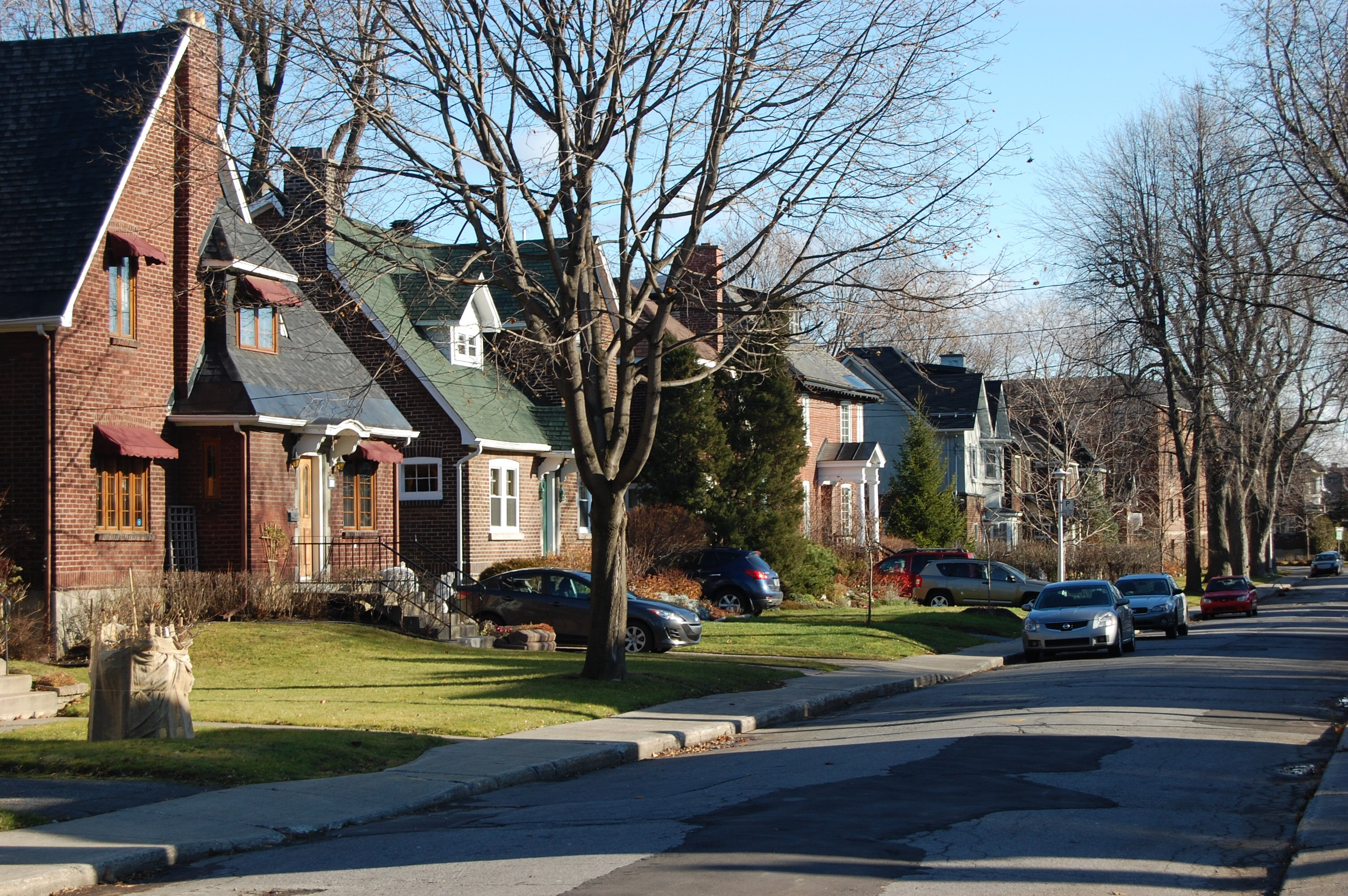 Brock Street in Montreal-West